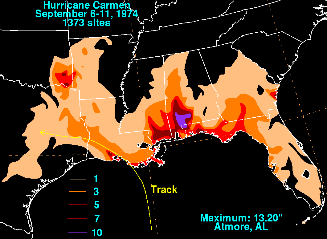 Rainfall produced by Hurricane Carmen during September 1974.